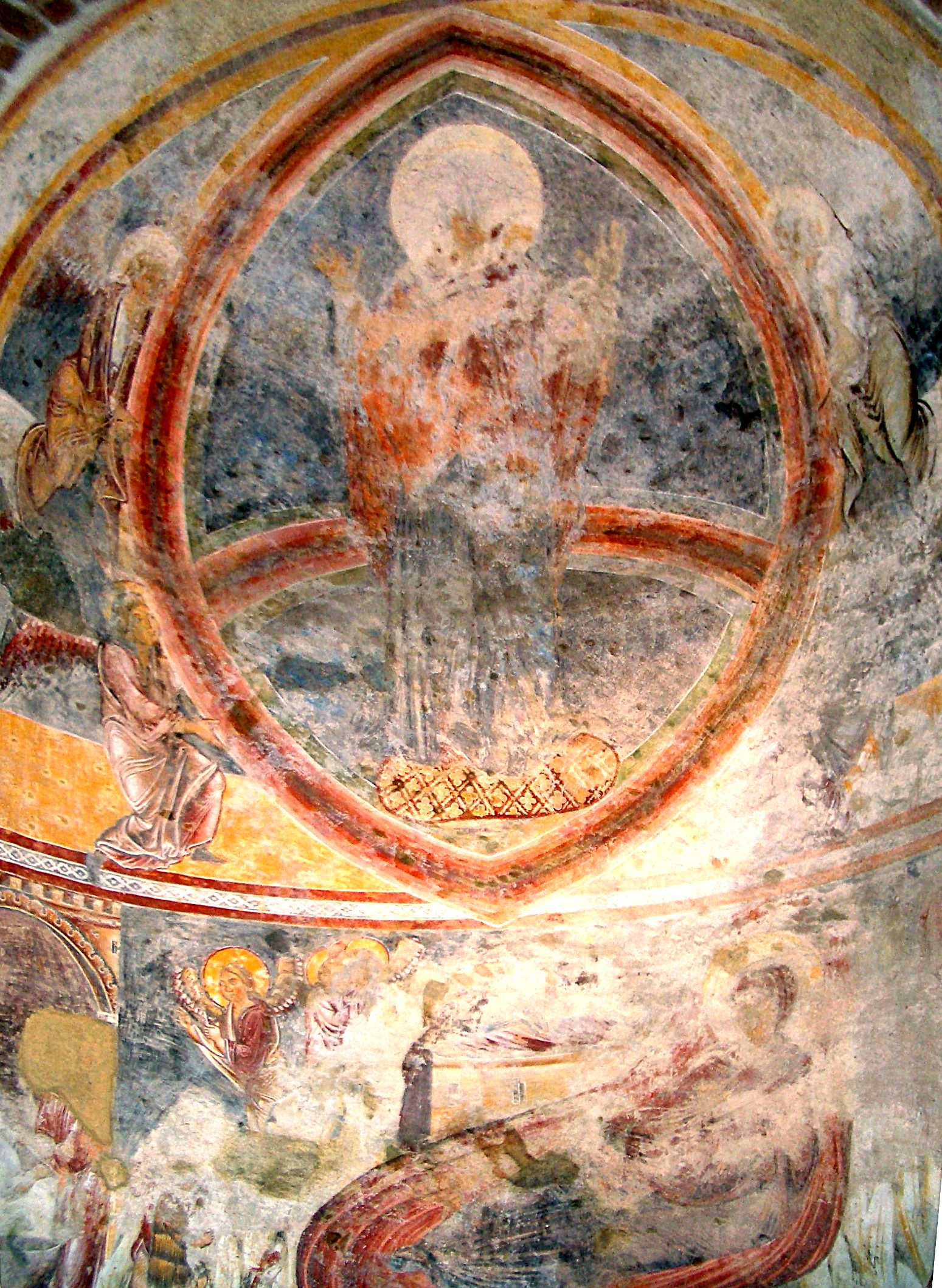 Riva San Vitale, Nativity, Romanesque fresco, X – XII century